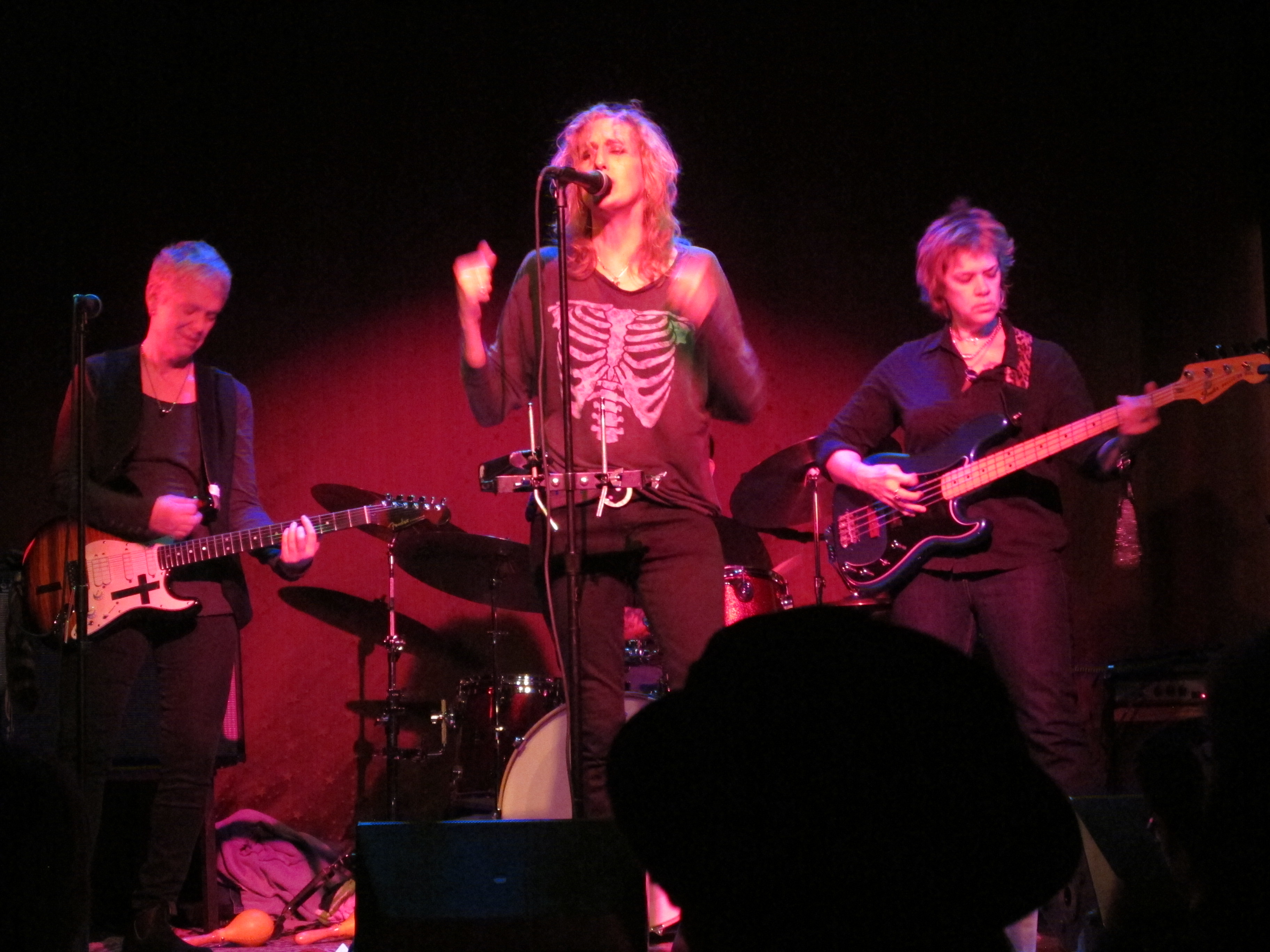 The Bush Tetras performing at the Slipper Room in New York City